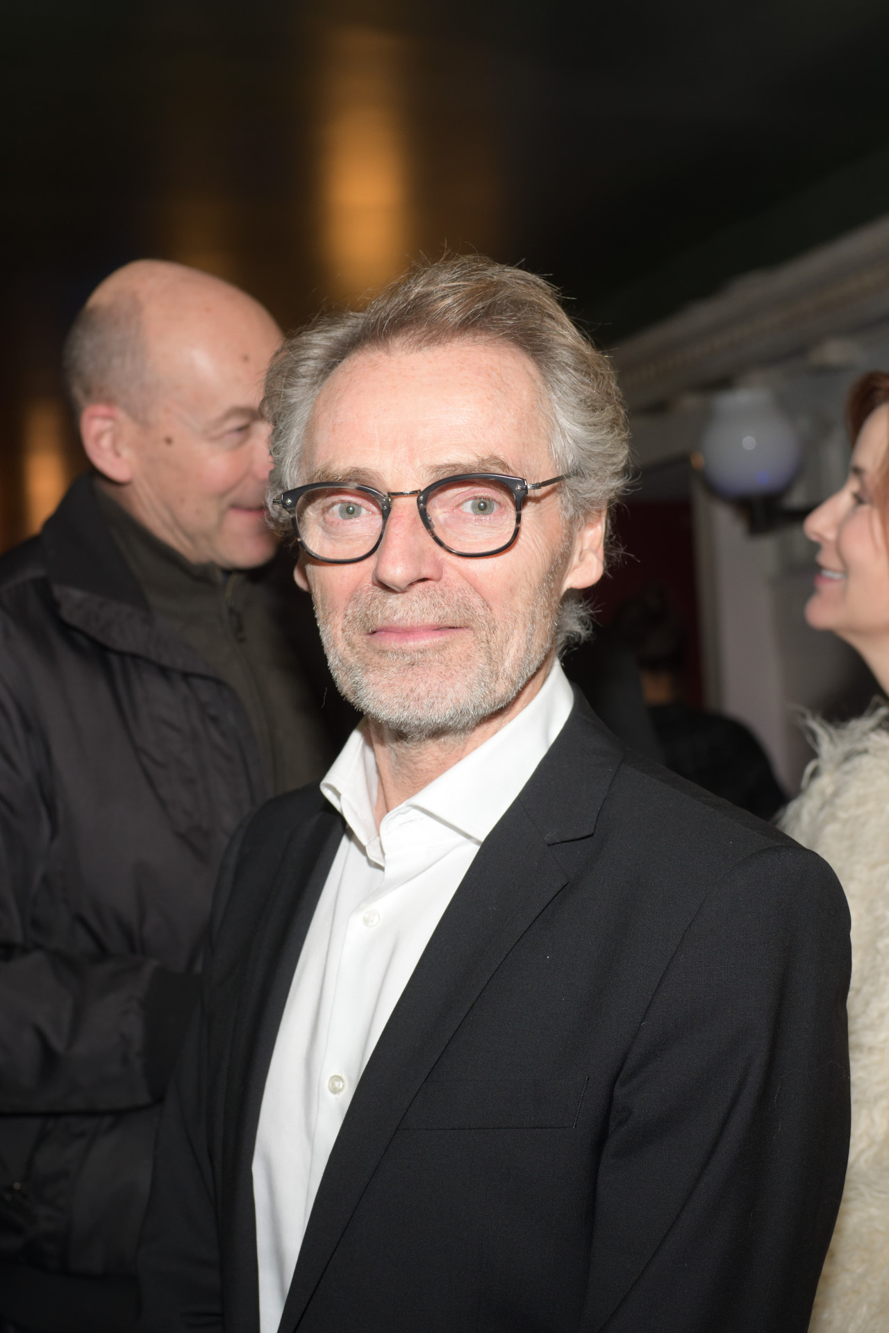 Face2Face with Dan Laustsen på Skandia.